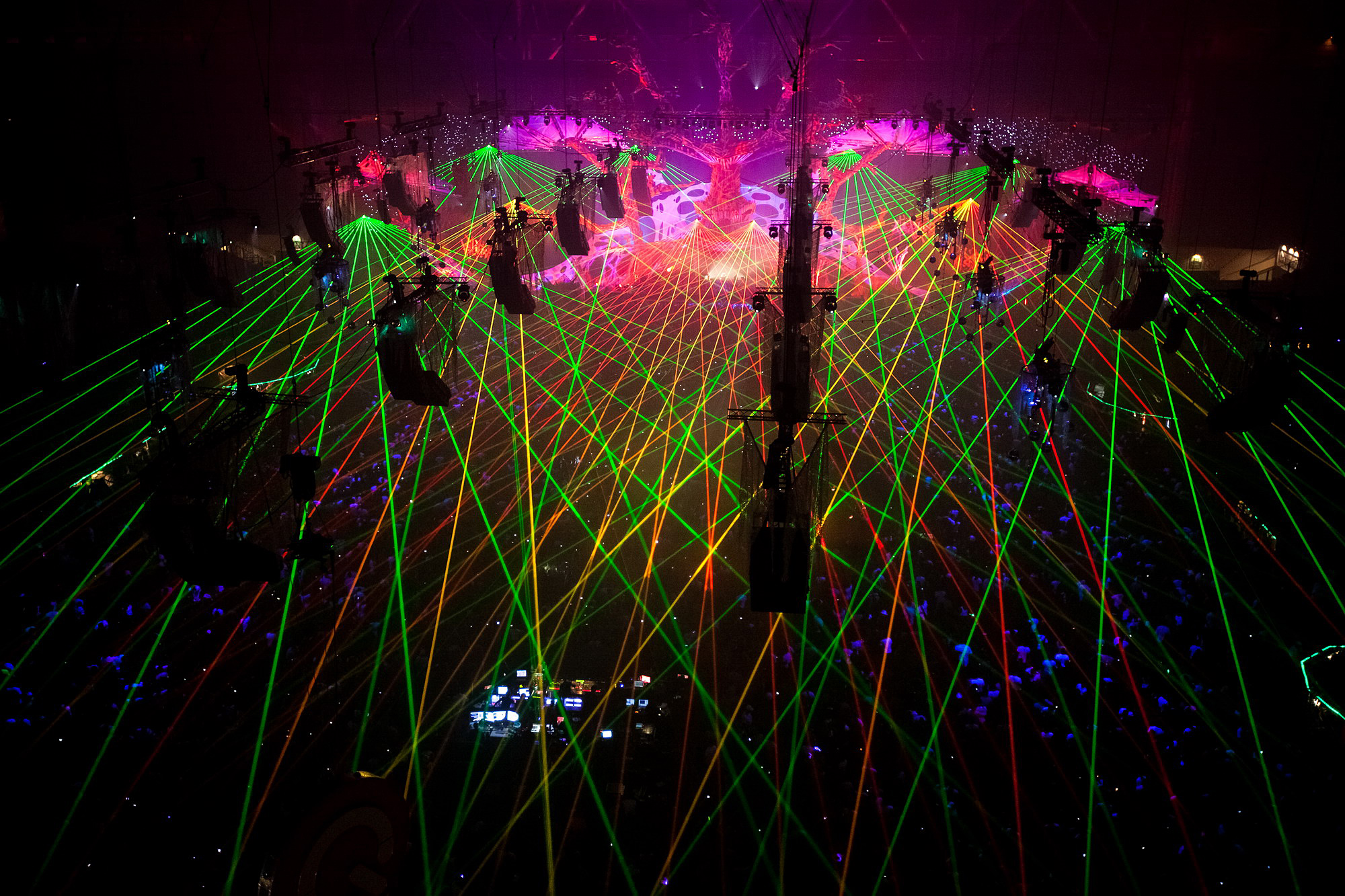 Qlimax 2009